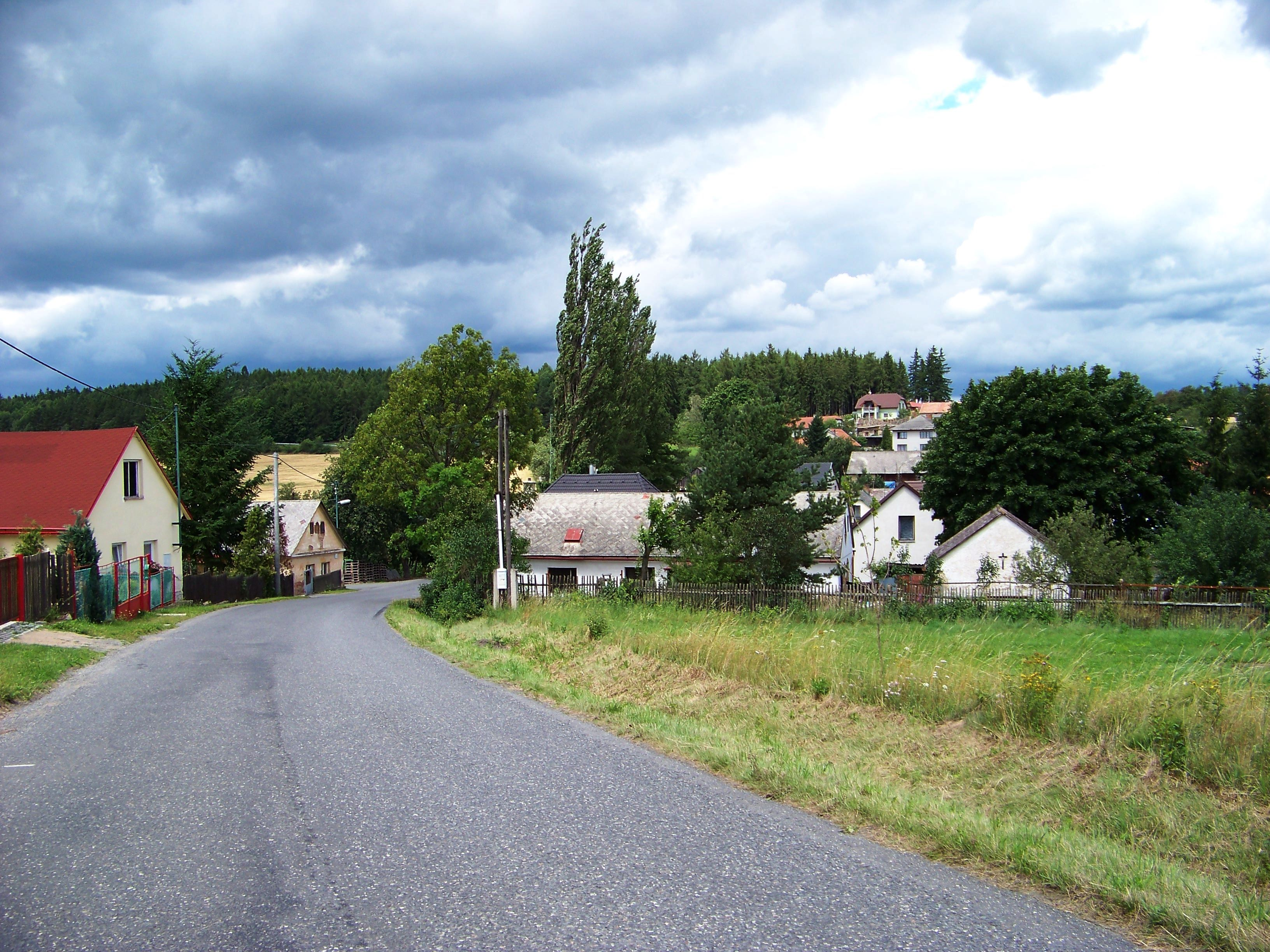 Příbram-Jerusalem, Příbram District, Central Bohemian Region, the Czech Republic. - OpenStreetMap(Info)